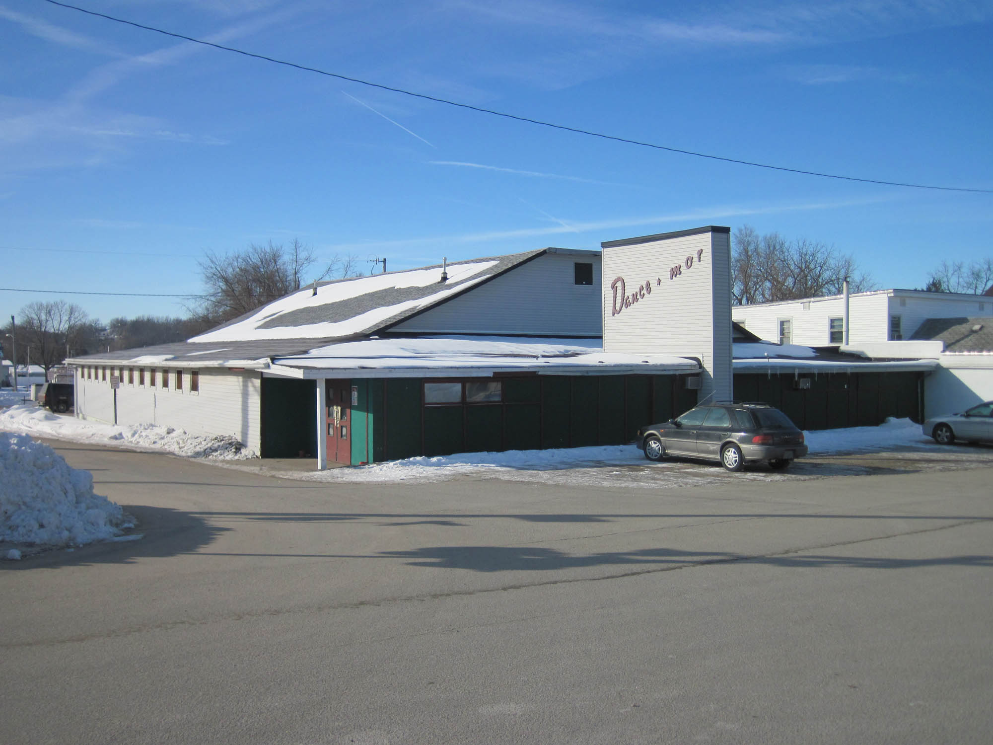 Dance-Mor Dance Hall, Swisher. Bill Whittaker (talk) 00:47, 28 February 2010 (UTC)